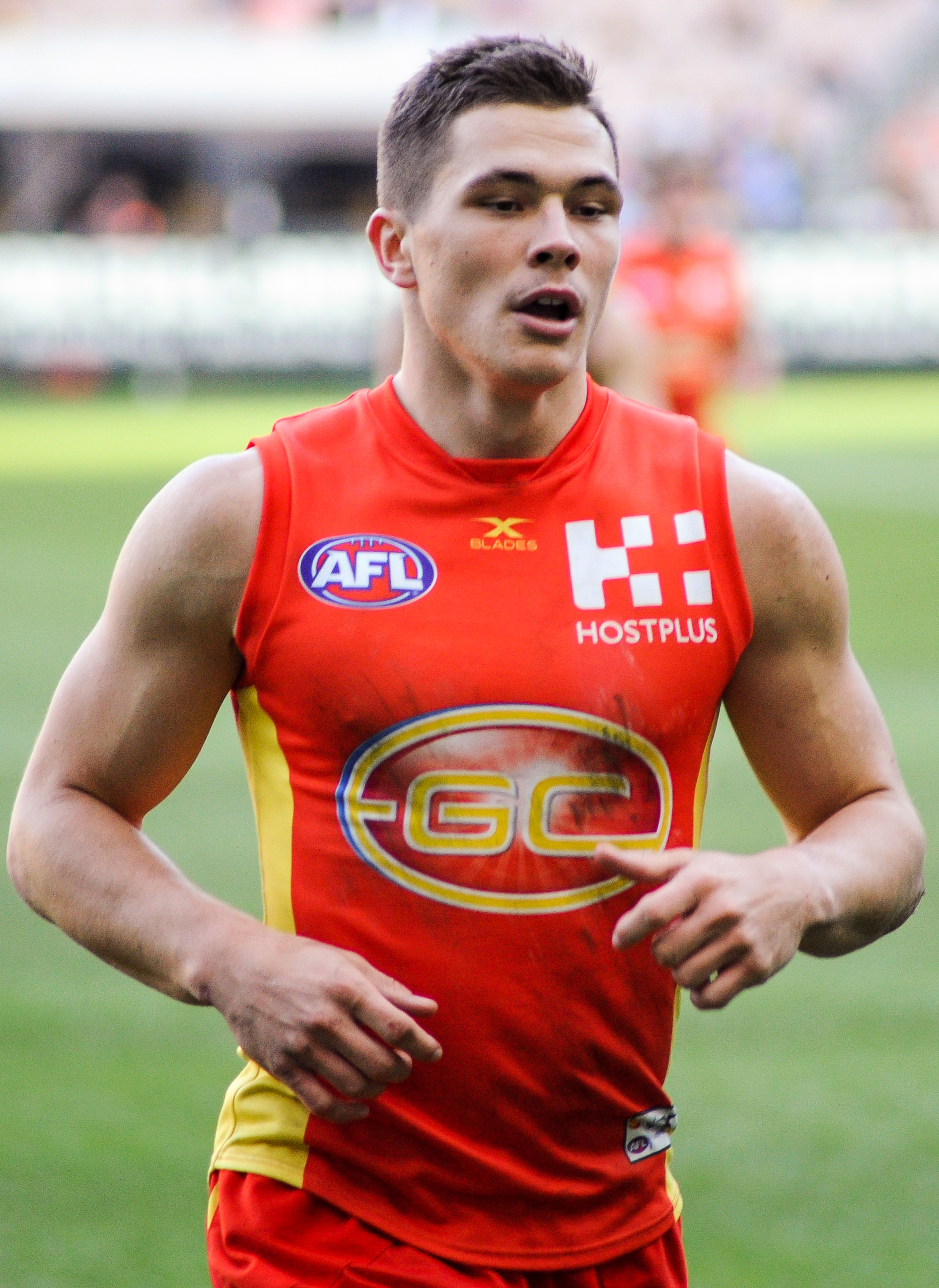 Ben Ainsworth during the AFL round twelve match between Melbourne and Collingwood on 10 June 2017 at the Melbourne Cricket Ground in Melbourne, Victoria.